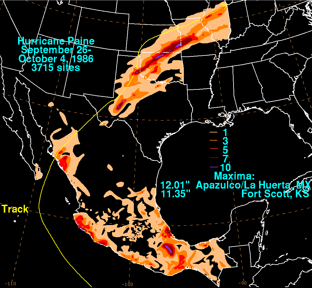 Storm total rainfall map of Hurricane Paine during September and October 1986.